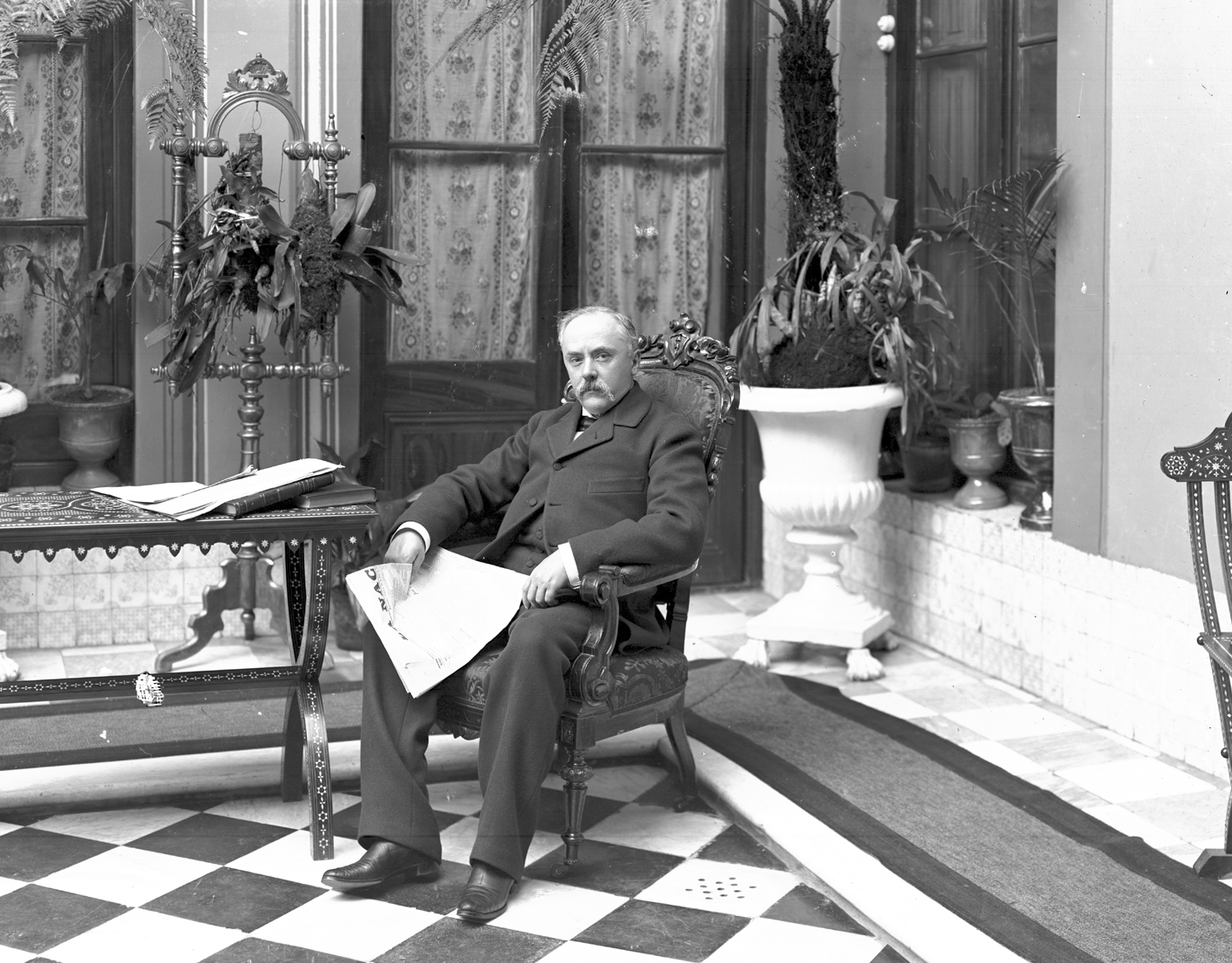 President of Uruguay, Juan Idiarte Borda, posing for the camera.